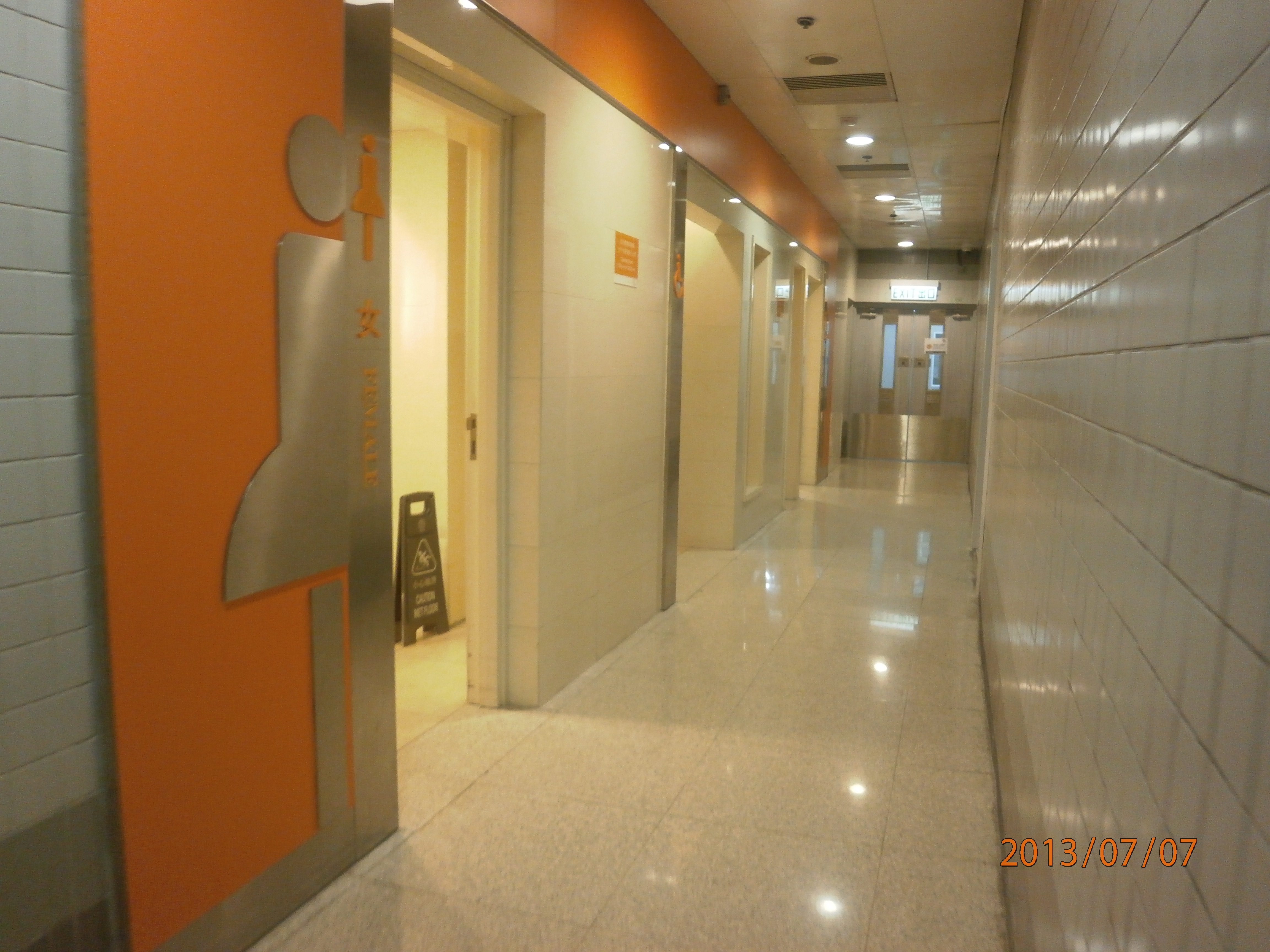 Sheung Tak Plaza 3rd floor Access with restroom